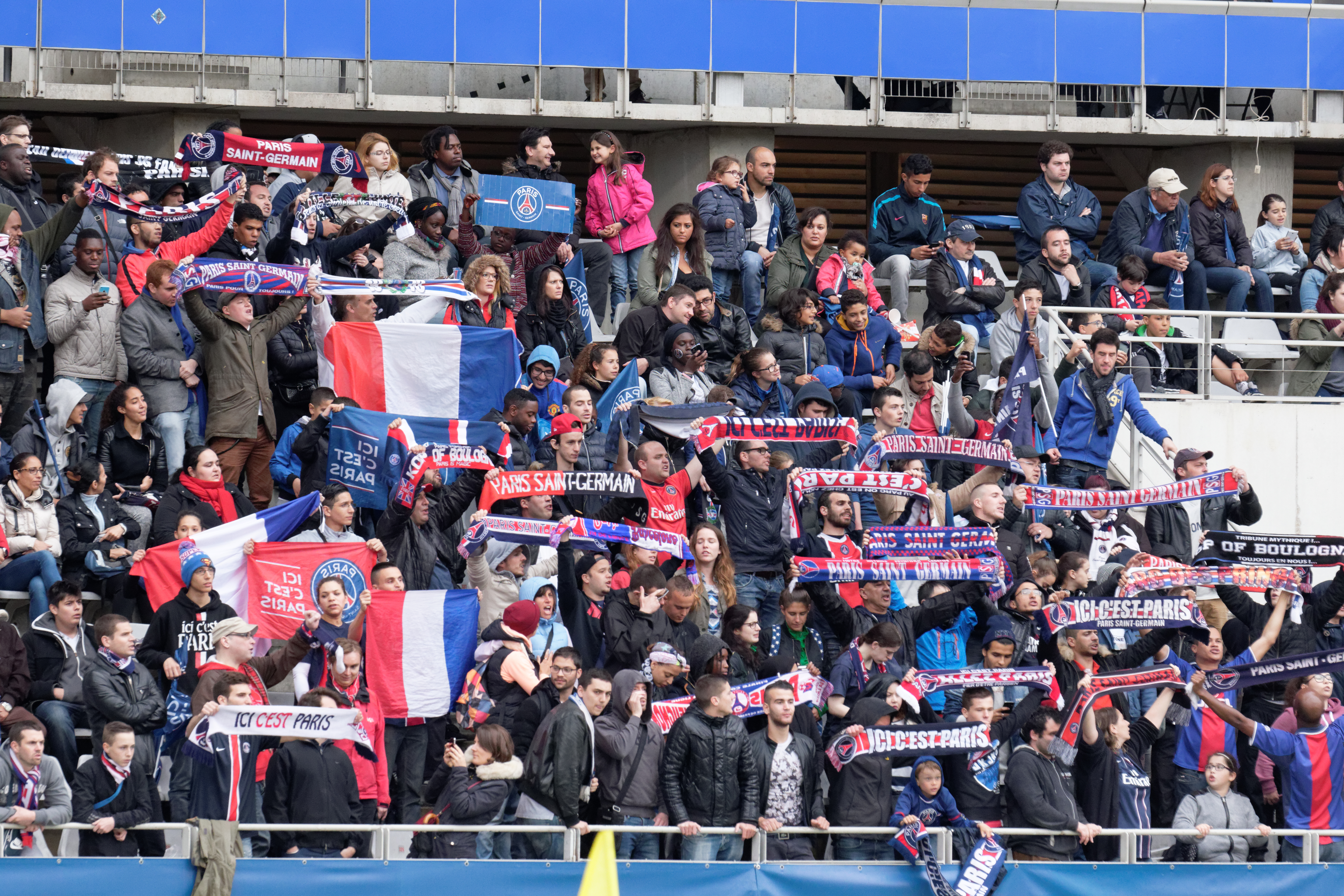 UEFA Women's Champions League, PSG - Wolfsburg, 26 April 2015.